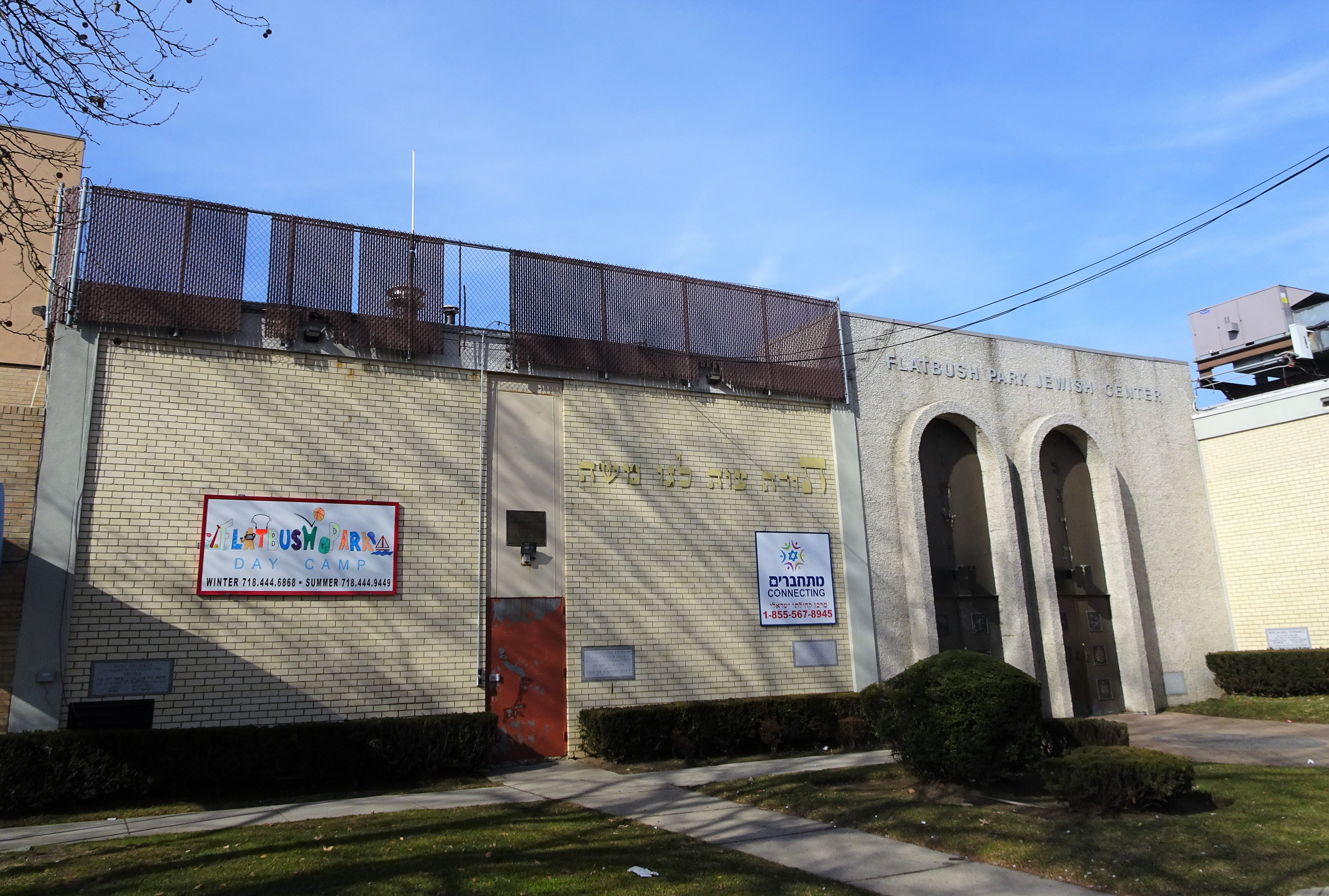 Looking north from Avenue U at Flatbush Park Jewish Center